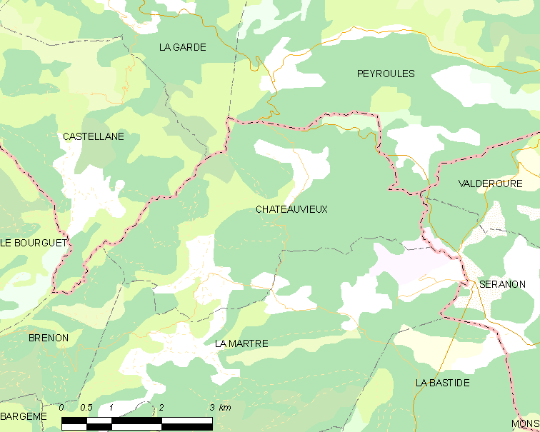 Map of French municipality Châteauvieux